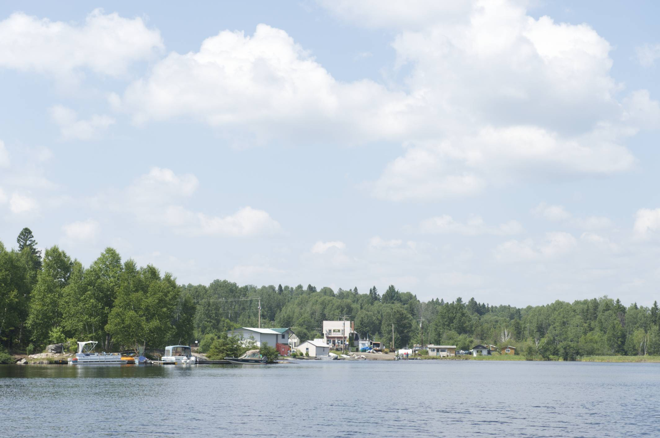 The mighty town of Biscotasing. Only one commercial building